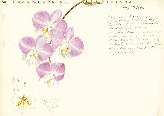 Phalaenopsis sanderiana